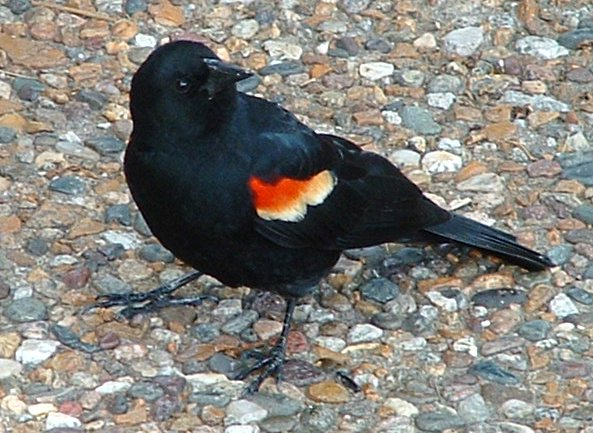 A Red-winged Blackbird. Photographed June 15, 2006 at the Jefferson National Expansion Memorial, St. Louis, Missouri by Kelly Martin.